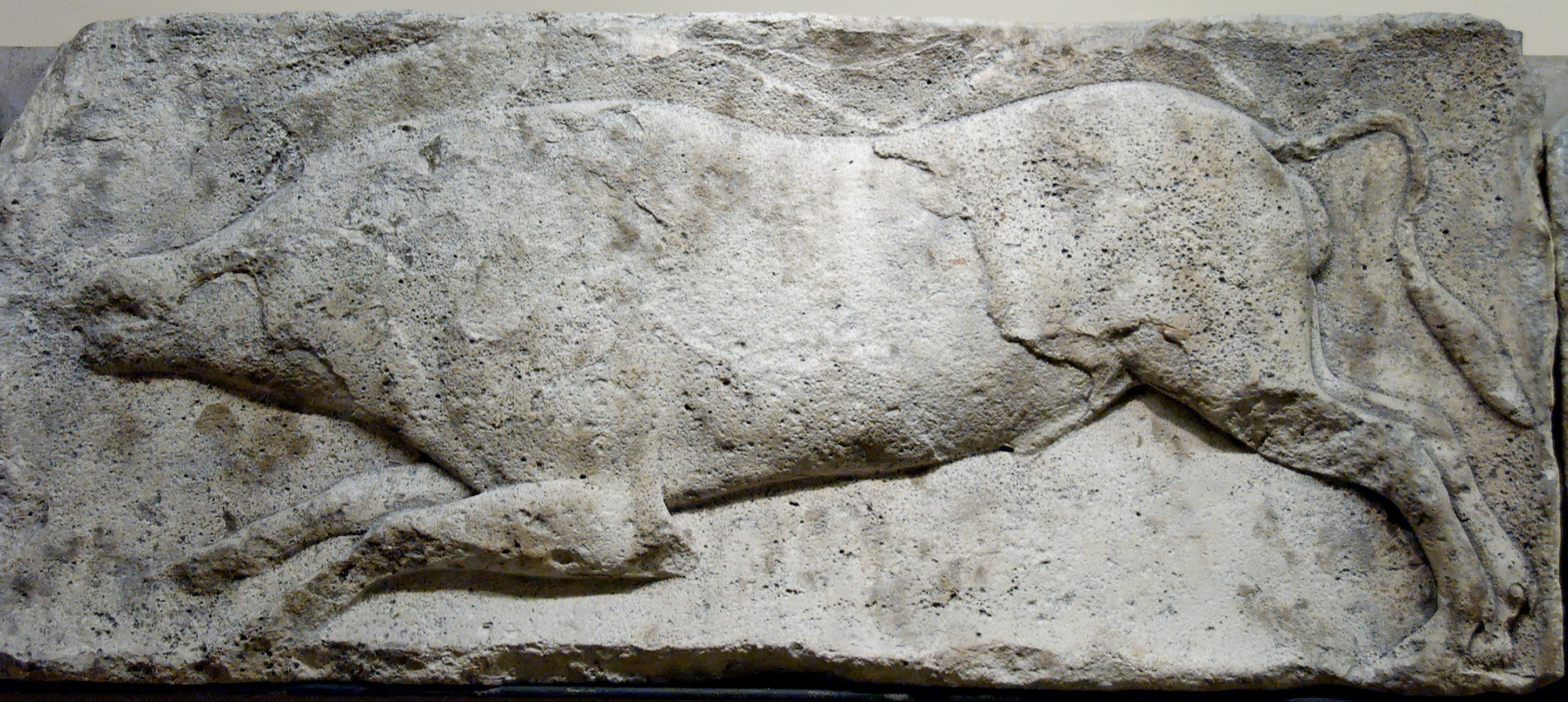 Running boar. Frieze block carved in relief, from the animal frieze that used to run around the top of the podium supporting so-called “Building G”, on the acropolis of Xanthos in Lycia. Made during the reign of King Kuprlli (480-440 BC).